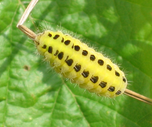 Six-spot Burnet - caterpillar